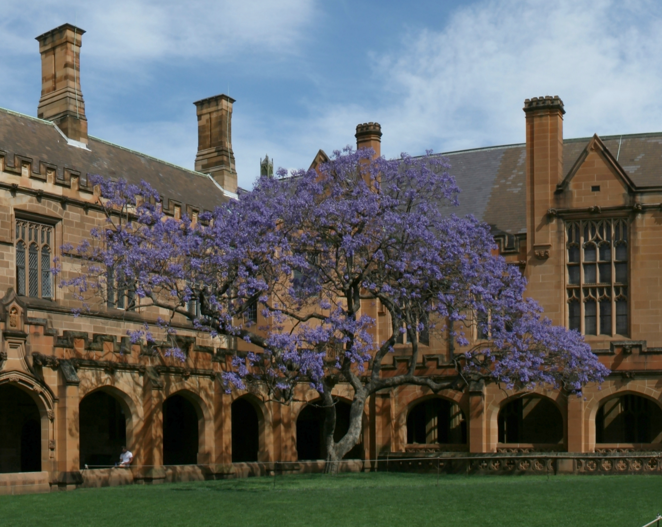 The Quadrangle at The University of Sydney. The architect Edmund Blacket designed these Neogothic sandstone buildings, which were completed in 1862. The jacaranda mimosifolia tree in full flower has great sentimental value within the University.